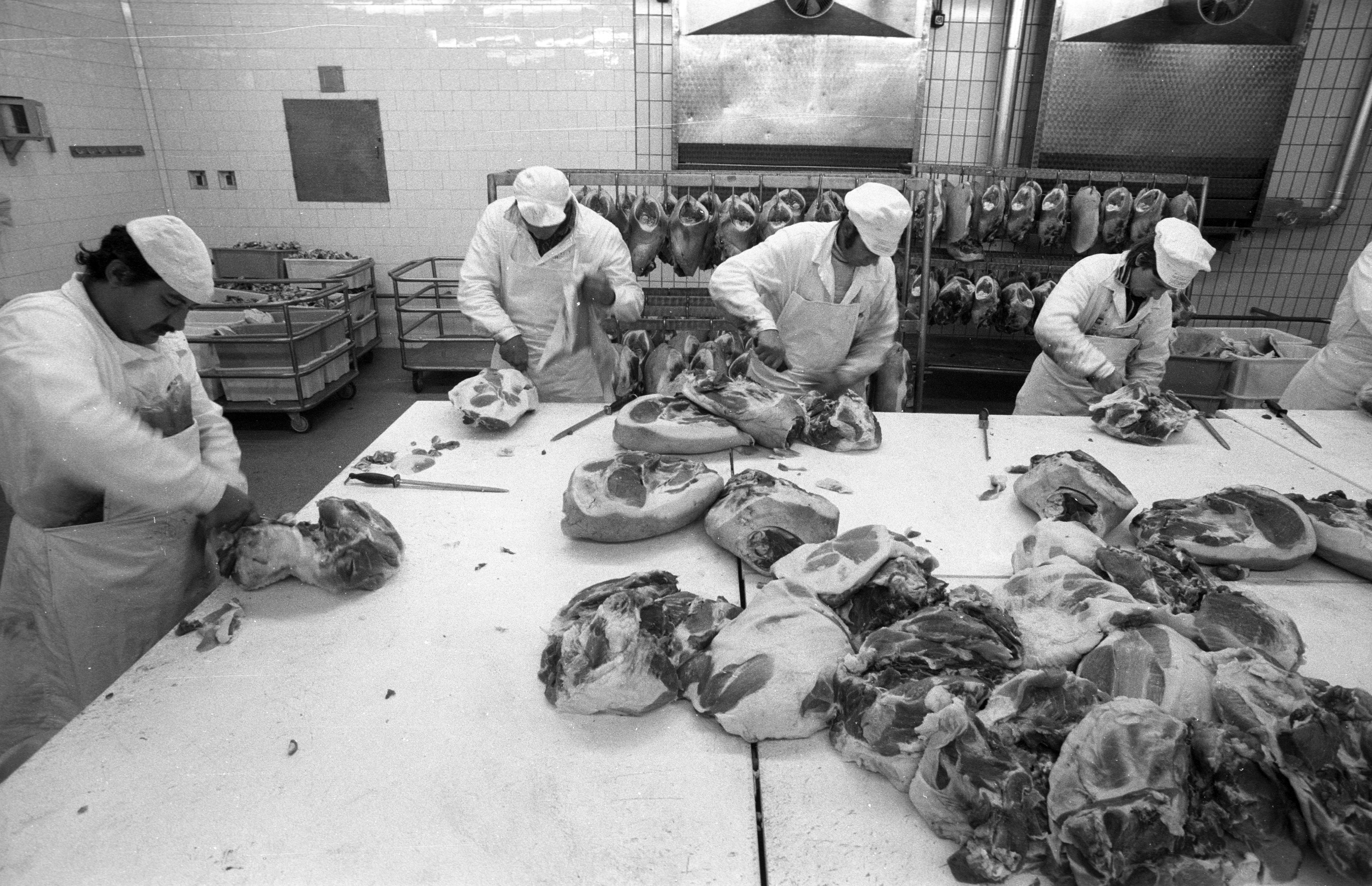 Tags: meat industry